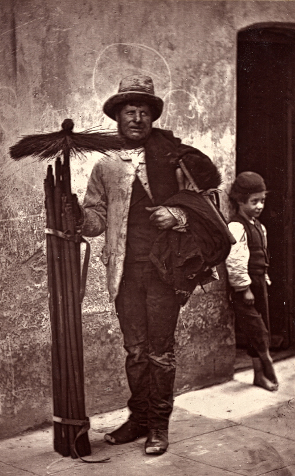 The Temperance Sweep by John Thomson, published in Street Life in London, 1877